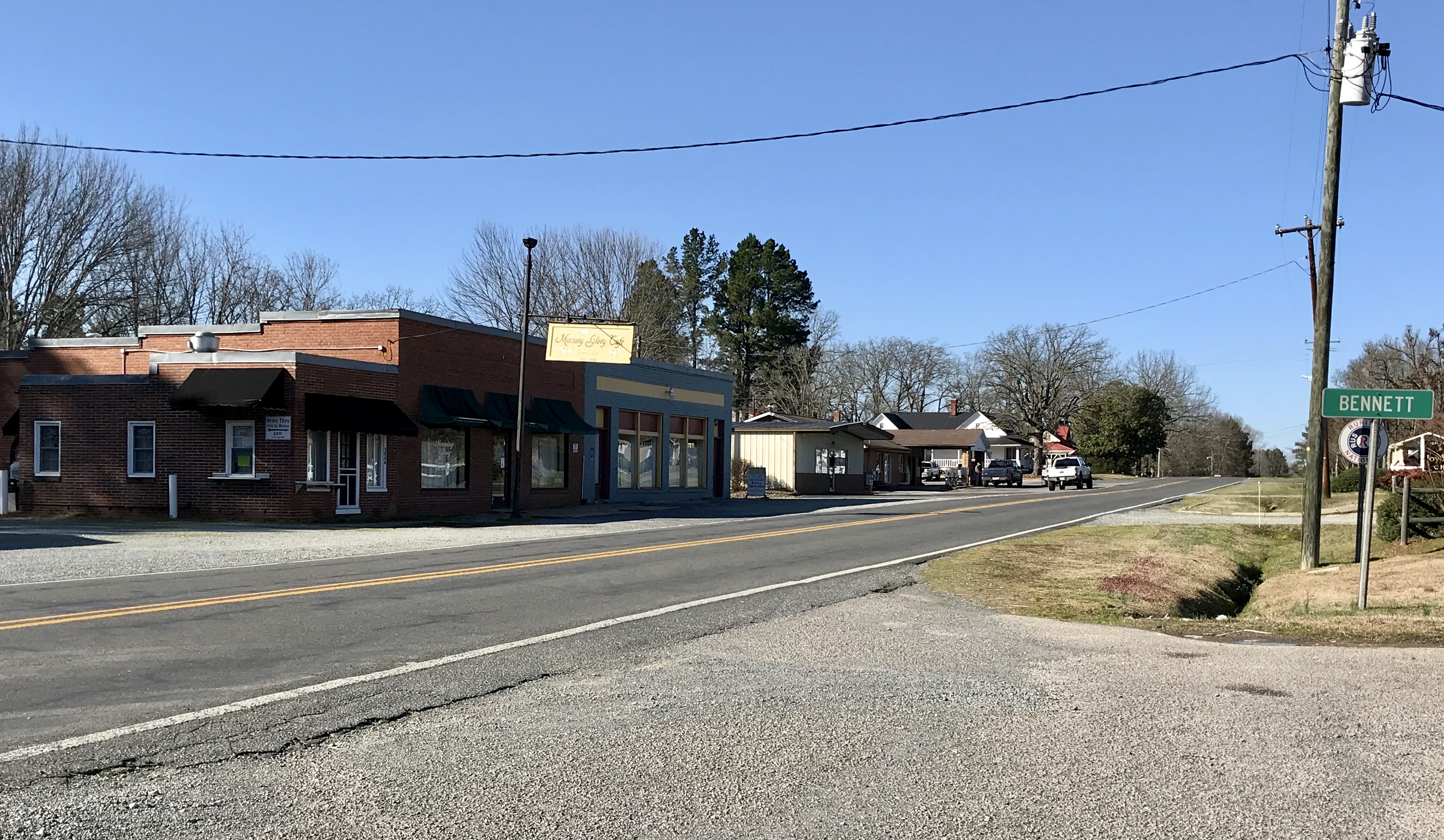 Chatham Street in Bennett